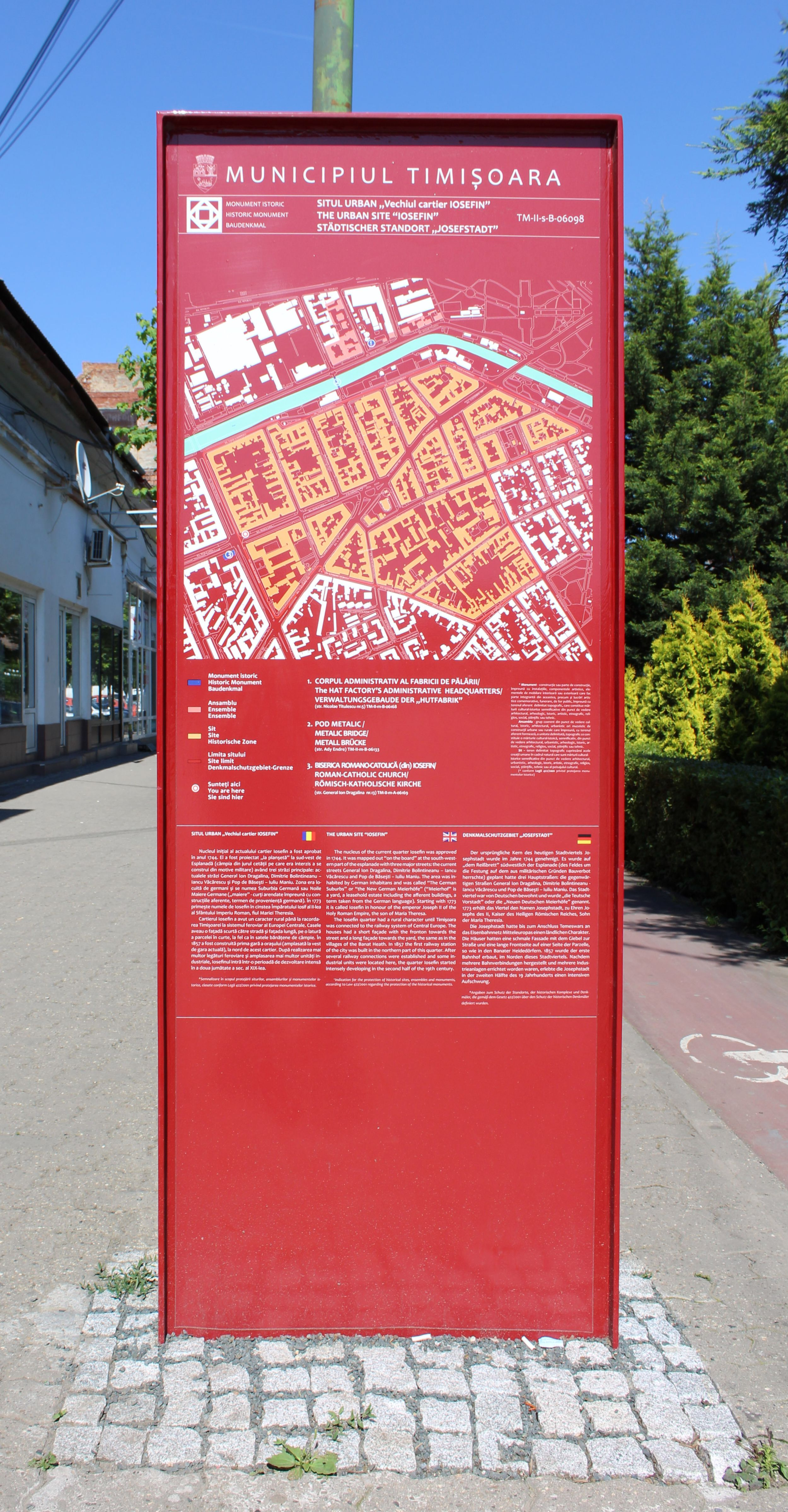 Street billboard showing the limits of the historical monument area of Iosefin neighbourhood, Timișoara, RO.